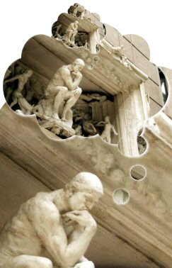 Used as illustration of the mind-body dichotomy on Danish wikipedia